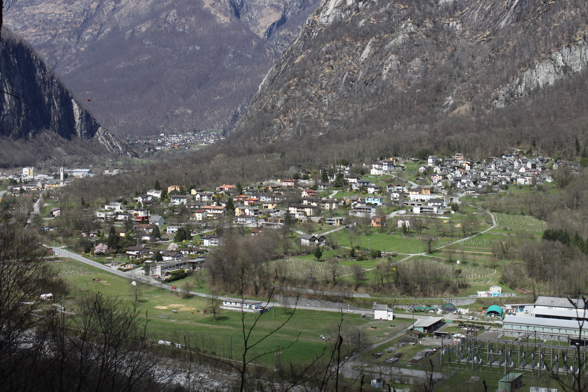 Avegno di Fuori.